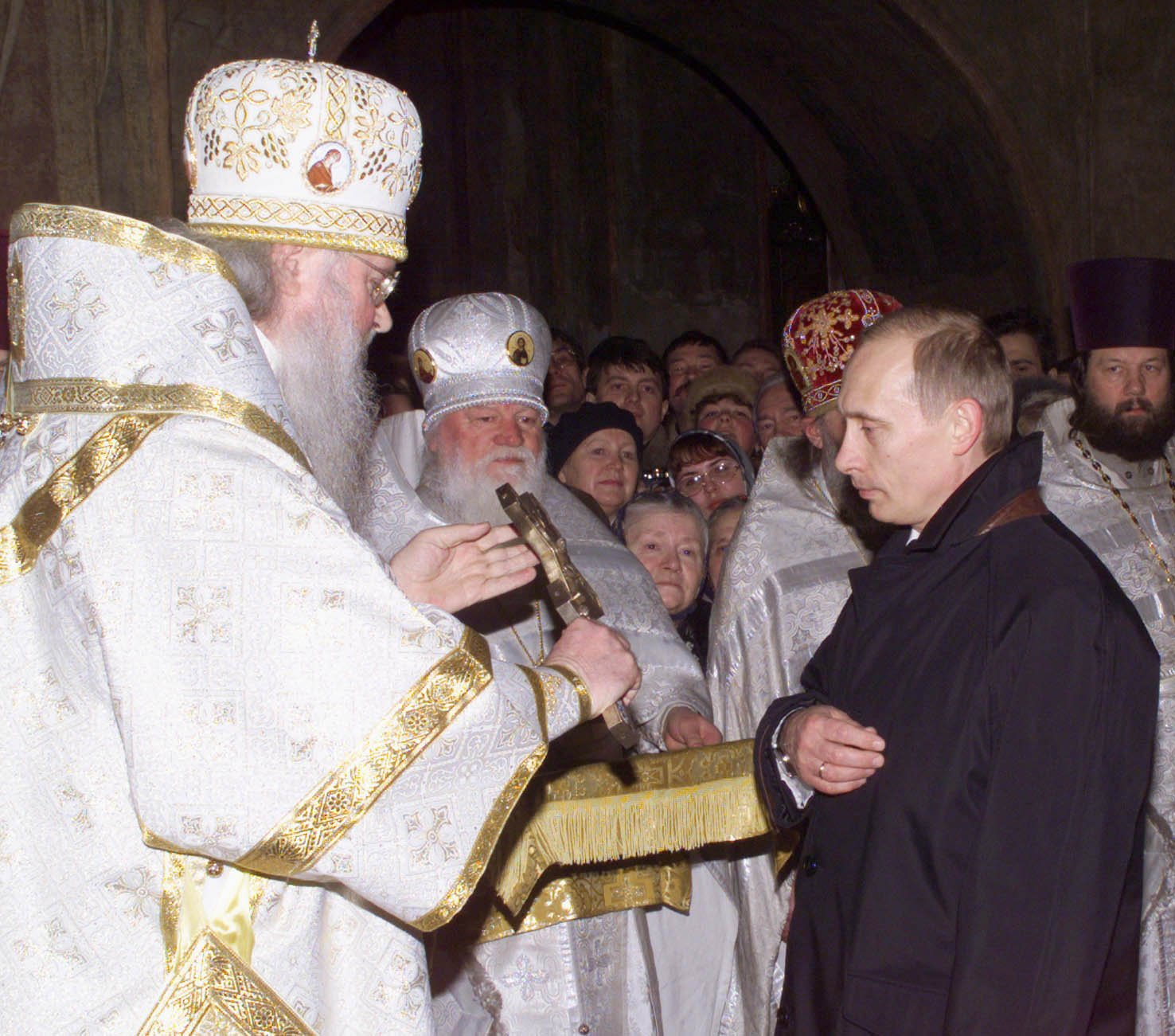 VLADIMIR. Christmas service at the Assumption Cathedral. President Putin with Archbishop Eulogius of Vladimir and Suzdal.